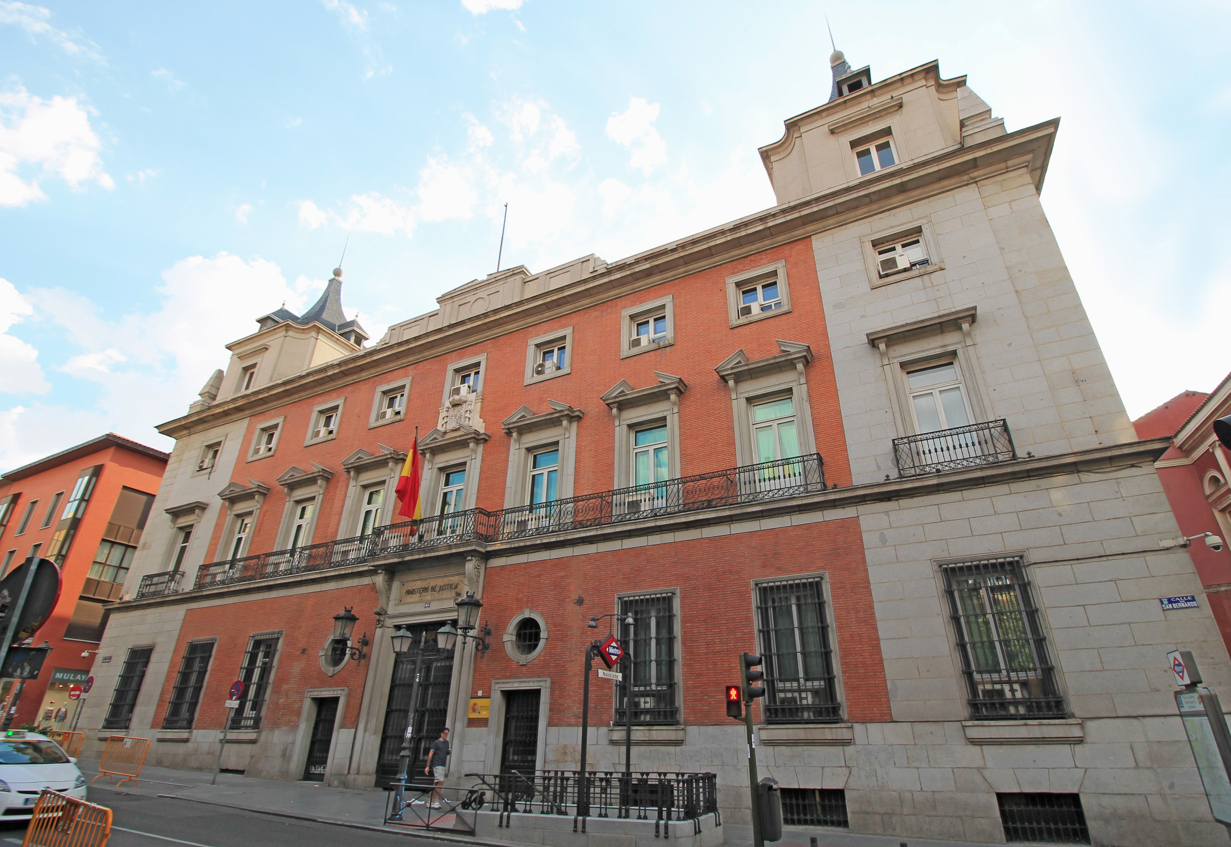 East façade of the Spanish Ministry of Justice, at 45 Calle de San Bernardo (street) in Madrid..